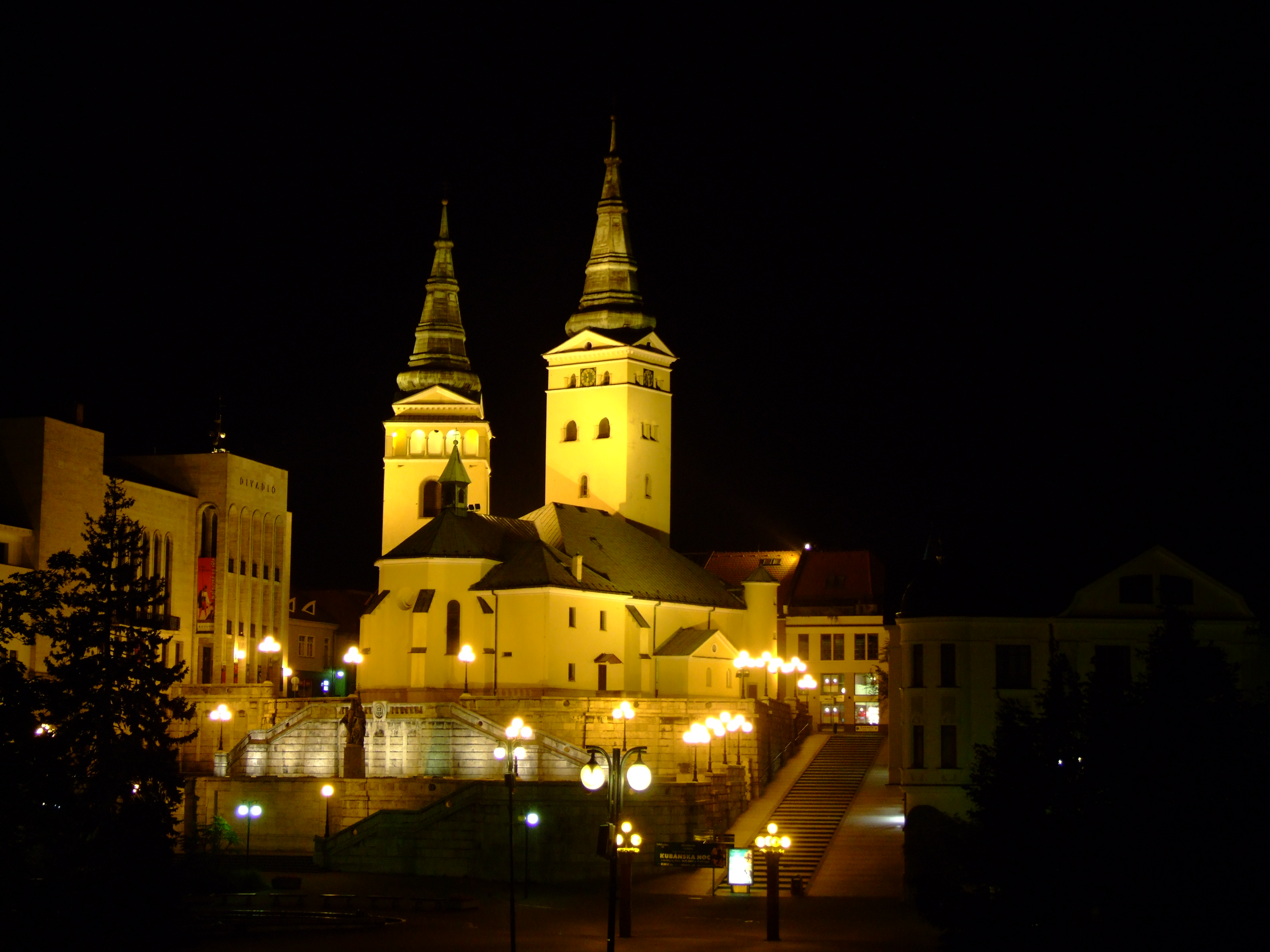 A view from our hotel window. It took us some time to find a nice, reasonably priced hotel, but the search was worth it.